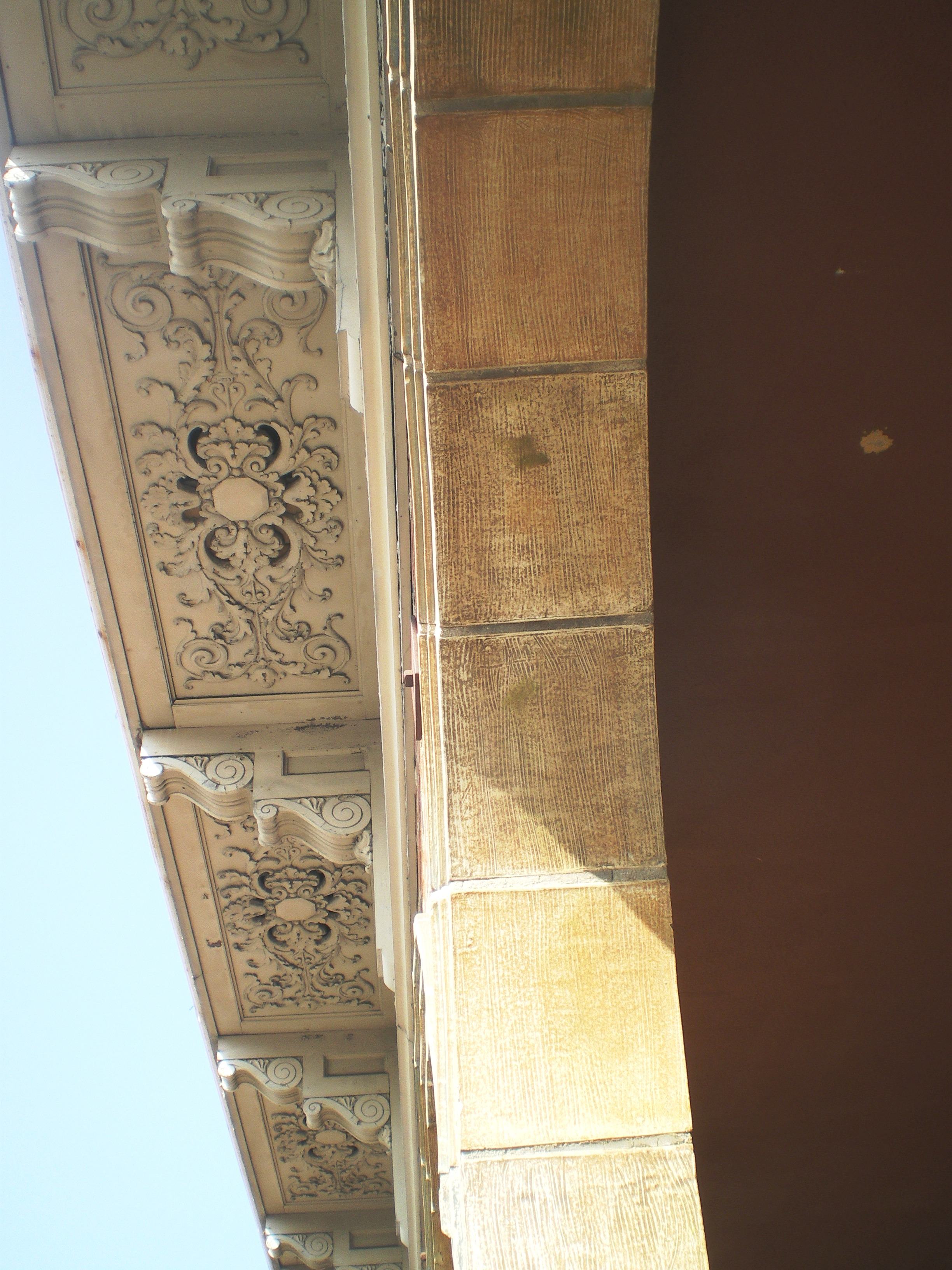 Highland Park Masonic Temple, Closeup of Eaves on Figueroa Facade, 104 N. Avenue 56, Highland Park, Los Angeles, California